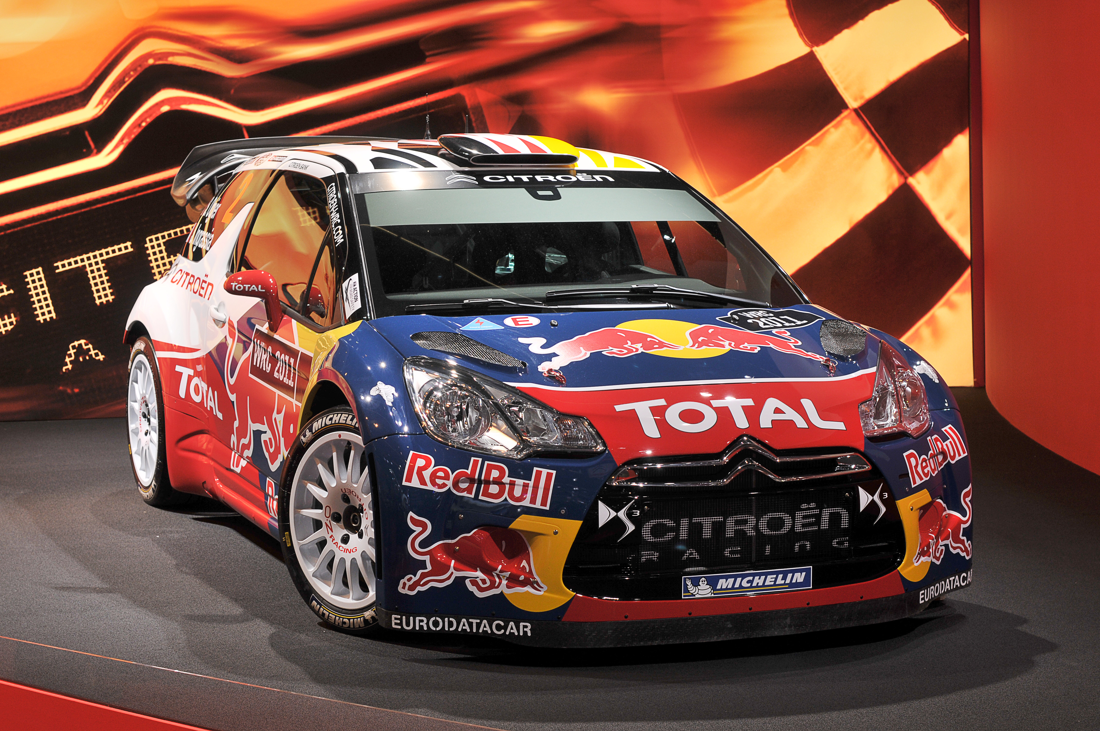 IAA 2012, Citroen racing